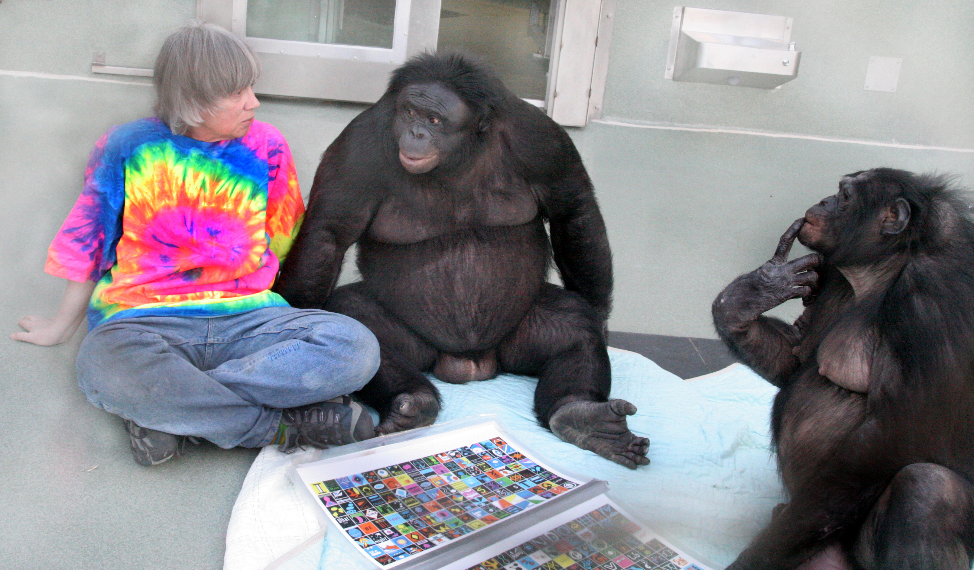 Bonobos Kanzi and Panbanisha with Sue Savage-Rumbaugh with the outdoor symbols "keyboard." Photograph from William H. Calvin's ALMOST US in Kindle format.